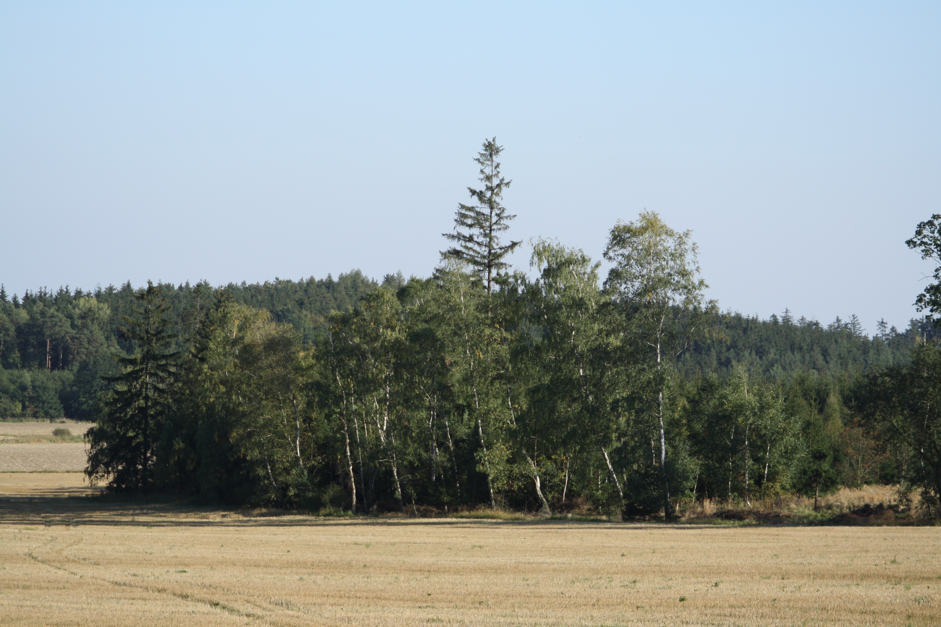 Typical scene from Natural park Třebíčsko in Třebíč, Czech Republic.